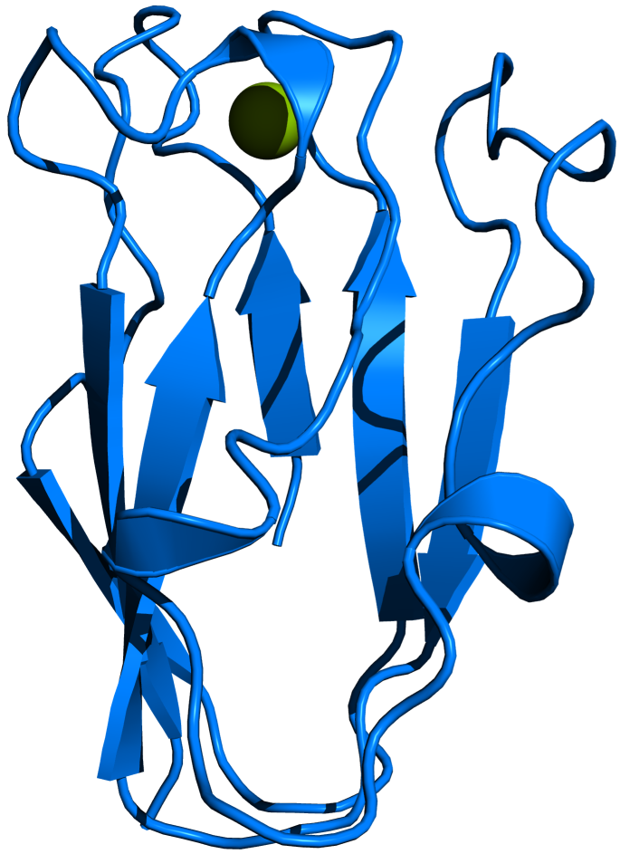 plastocyanin from spinach, according to PDB 1AG6 showing copper(II) (green)